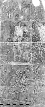 Documentation of rock art. Montage of rubbings made by Tanums hällristningsmuseum.